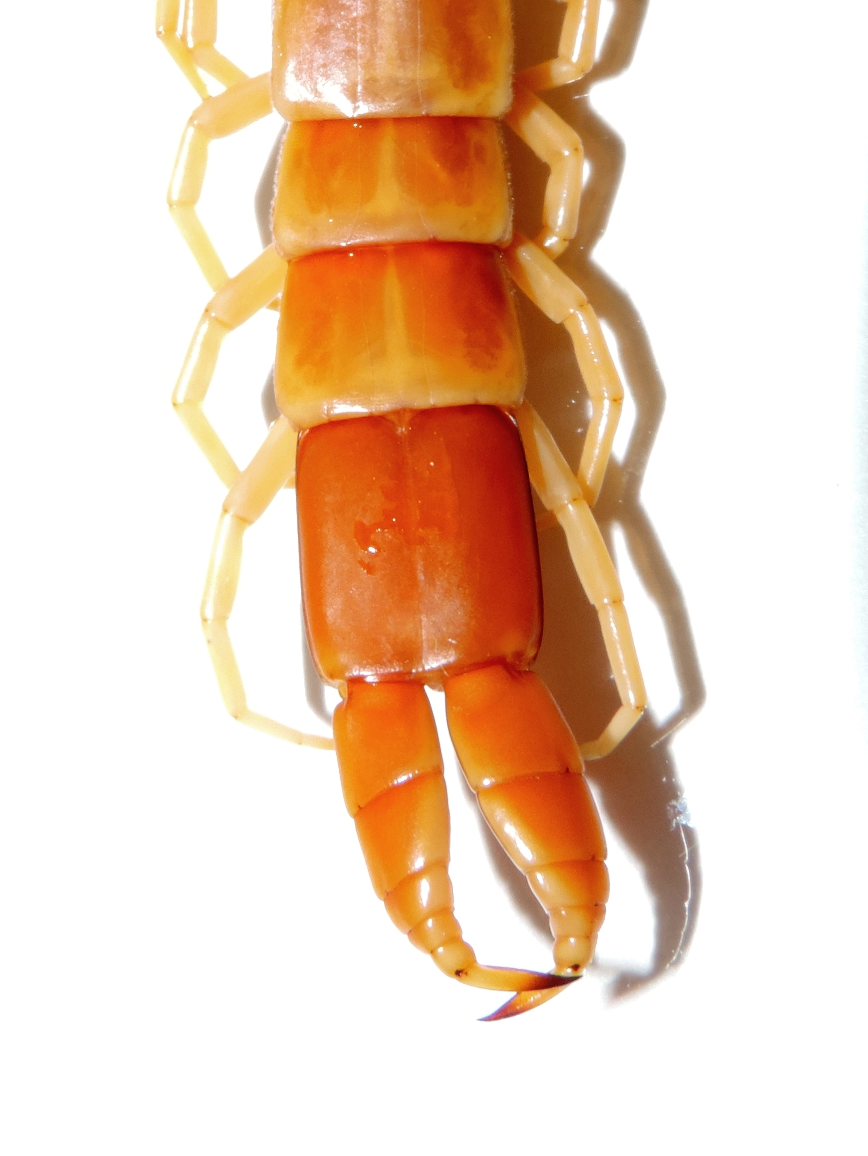 Plutonium zwierleini, posterior legs, dorsal view. Trecastagni, Sicily, photo Lucio Bonato